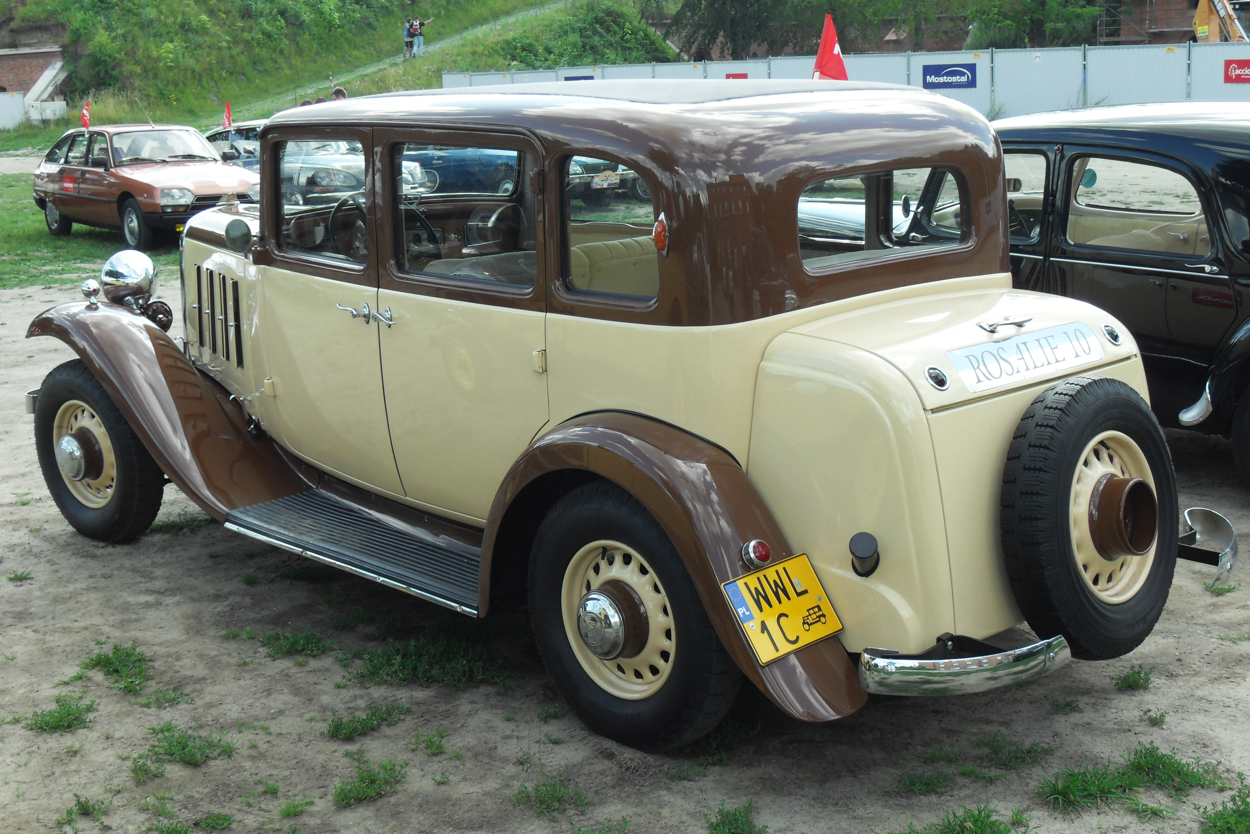 Citroën.